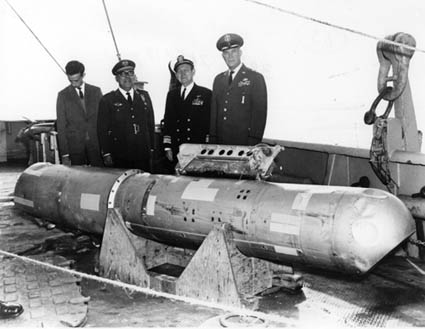 Eighty days after it fell into the ocean following the January 1966 midair collision between a nuclear-armed B-52G bomber and a KC-135 refueling tanker over Palomares, Spain, this B28RI nuclear bomb was recovered from 2,850 feet (869 meters) of water and lifted aboard the USS Petrel (note the missing tail fins and badly dented "false nose"). This photograph was among the first ever published of a U.S. hydrogen bomb. Left to right are Sr. Don Antonio Velilla Manteca, chief of the Spanish Nuclear Energy Board in Palomares; Brigadier General Arturo Montel Touzet, Spanish coordinator for the search and recovery operation; Rear Admiral William S. Guest, commander of U.S. Navy Task Force 65; and Major General Delmar E. Wilson, commander of the Sixteenth Air Force. The B28 had a maximum yield of 1.45 megatons.